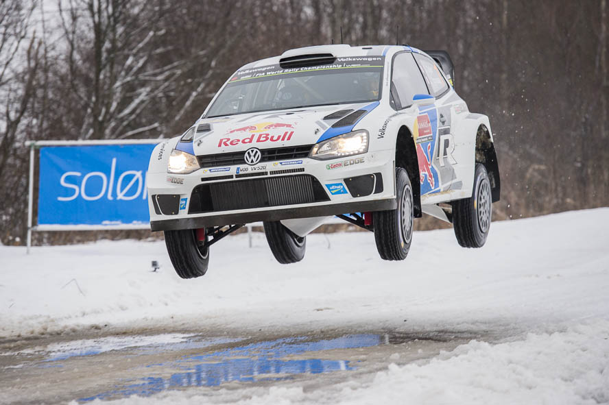 Rally Sweden 2014 Julien Ingrassia,Kirkener 1,Motorsport,Rally,Rally Sweden,Rallye,Rallye Schweden,SS3,Sebastien Ogier,VW Polo R WRC,Volkswagen Motorsport,Volkswagen Polo R WRC,WP3